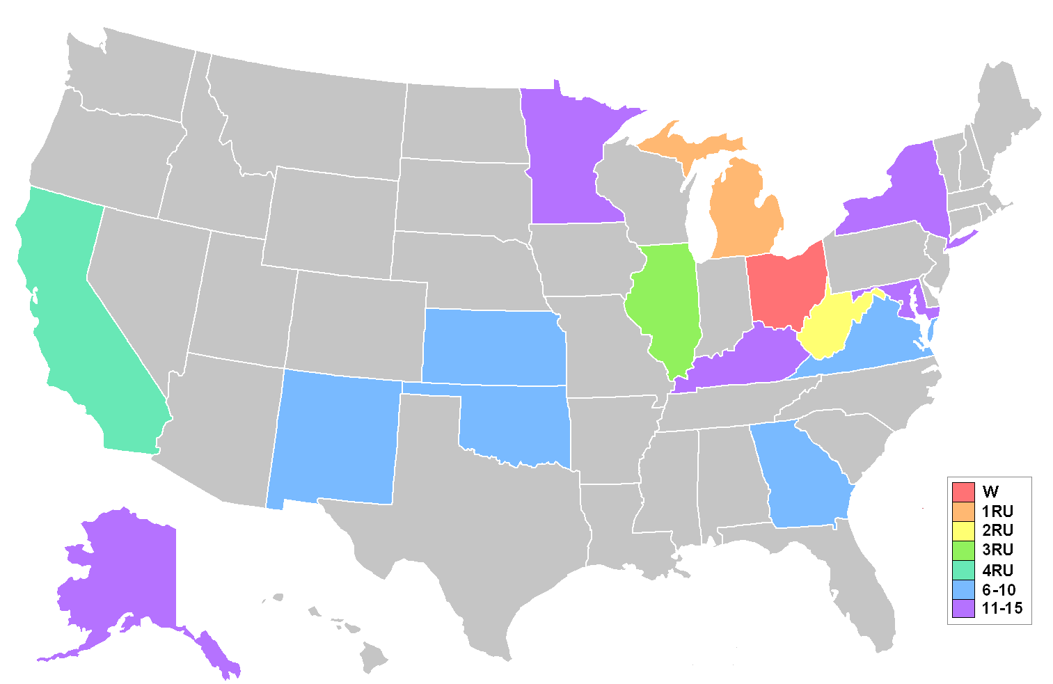 Map showing placements at the Miss Teen USA 2005 pageant. Key on graphic shows colour coding for break down of placements.